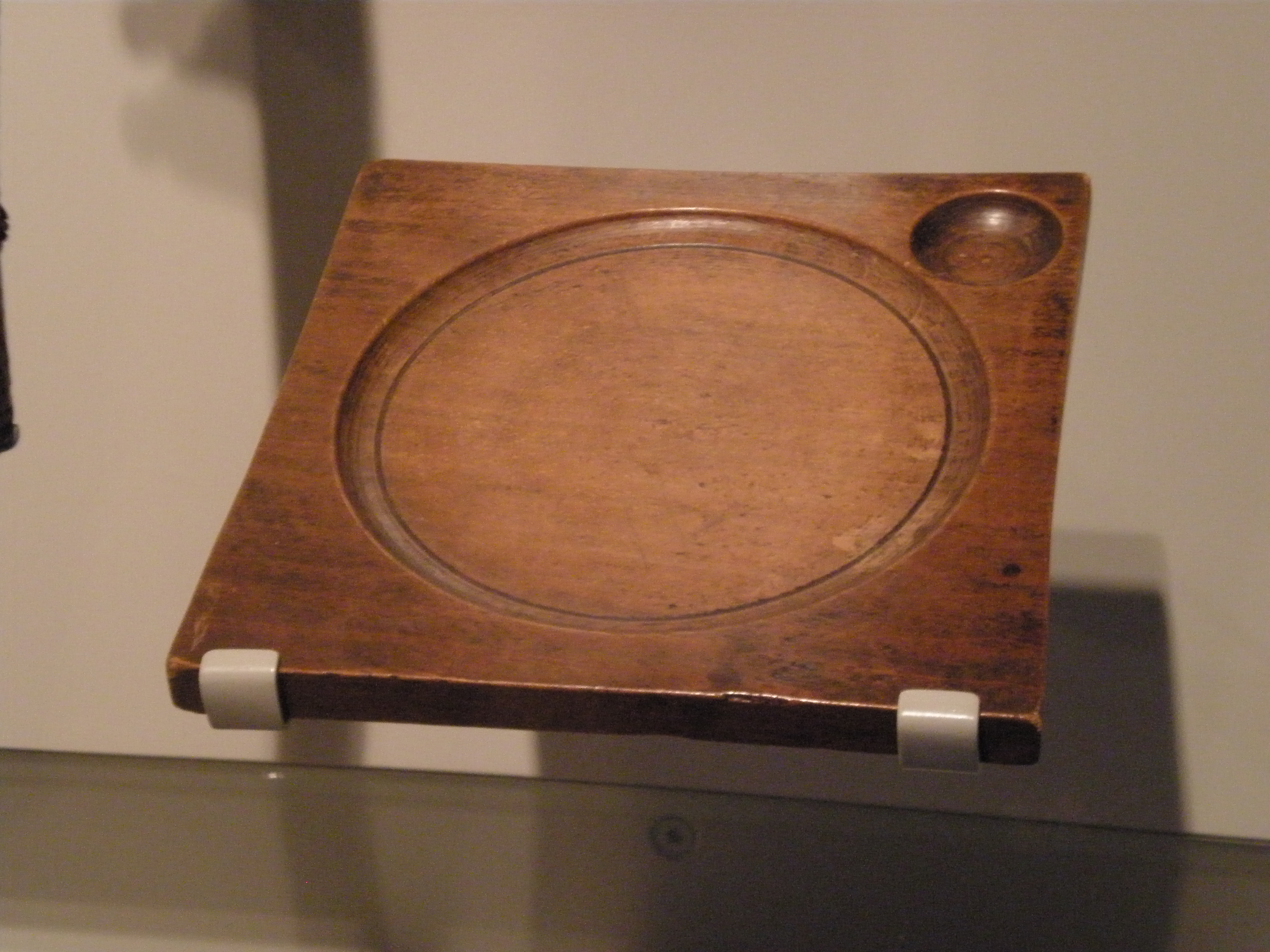 Trencher